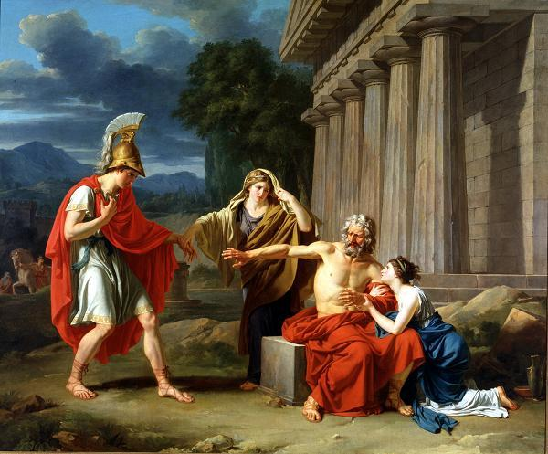 Painting: Oedipus at Colonus, by Jean-Antoine-Théodore Giroust. Current location: Dallas Museum of Art